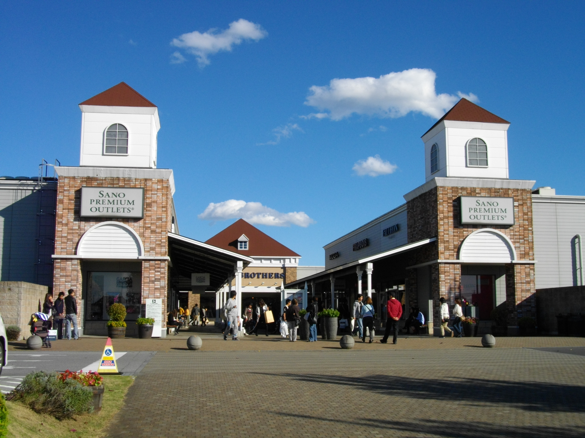 Sano Premium Outlets